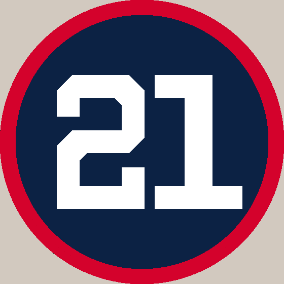 Player: Bob Lemon. A recreation of how it looks at Progressive Field, in which the background is beige on a blue circle with white numbers and red circling.